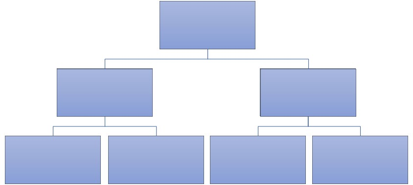 Slim organizational structure